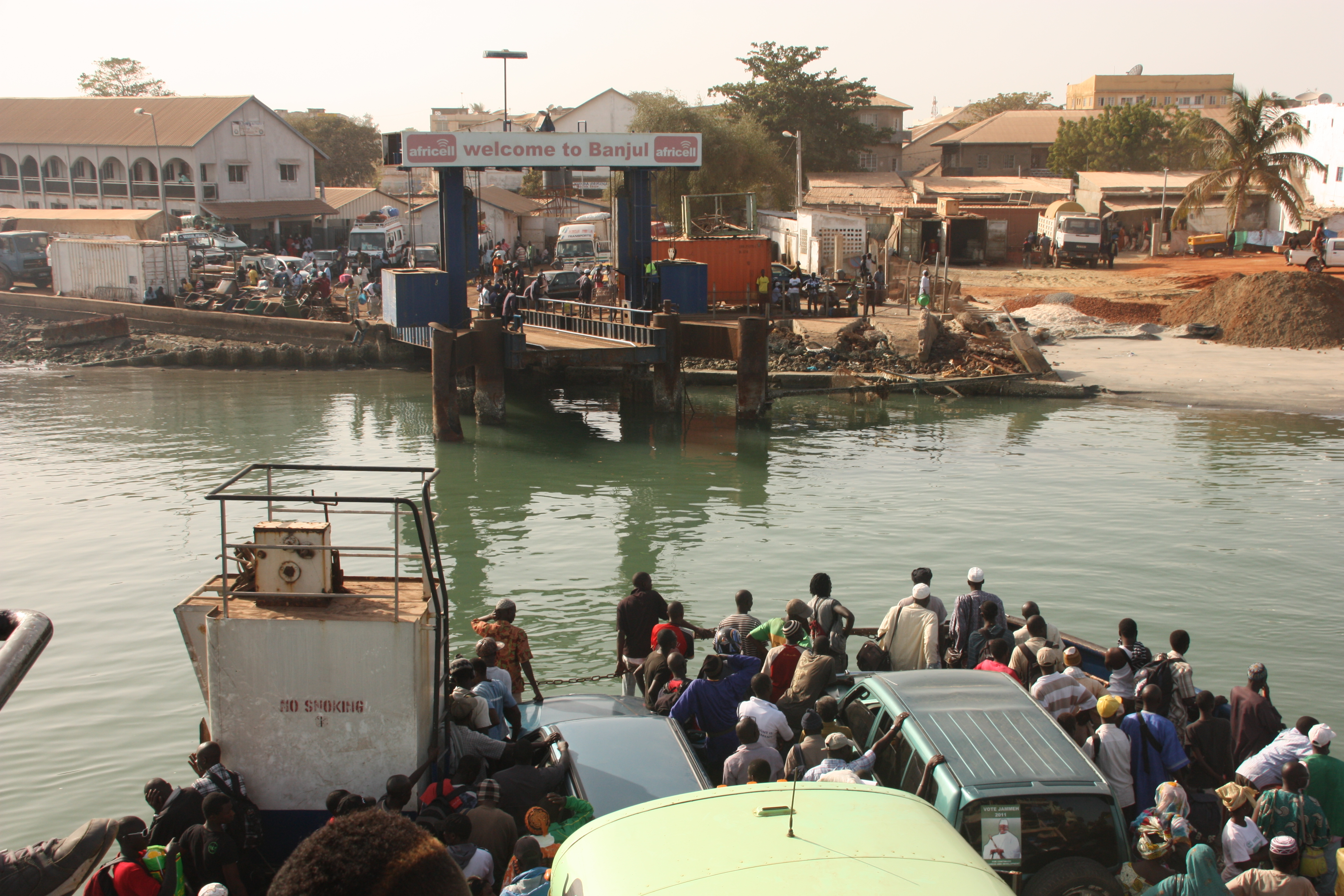 The Gambian ferry reaches the port of Banjul.